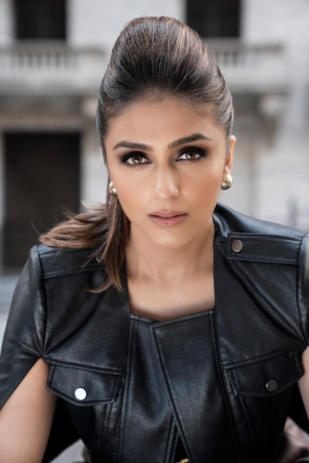 Aarti Chhabria 2016 photoshoot.